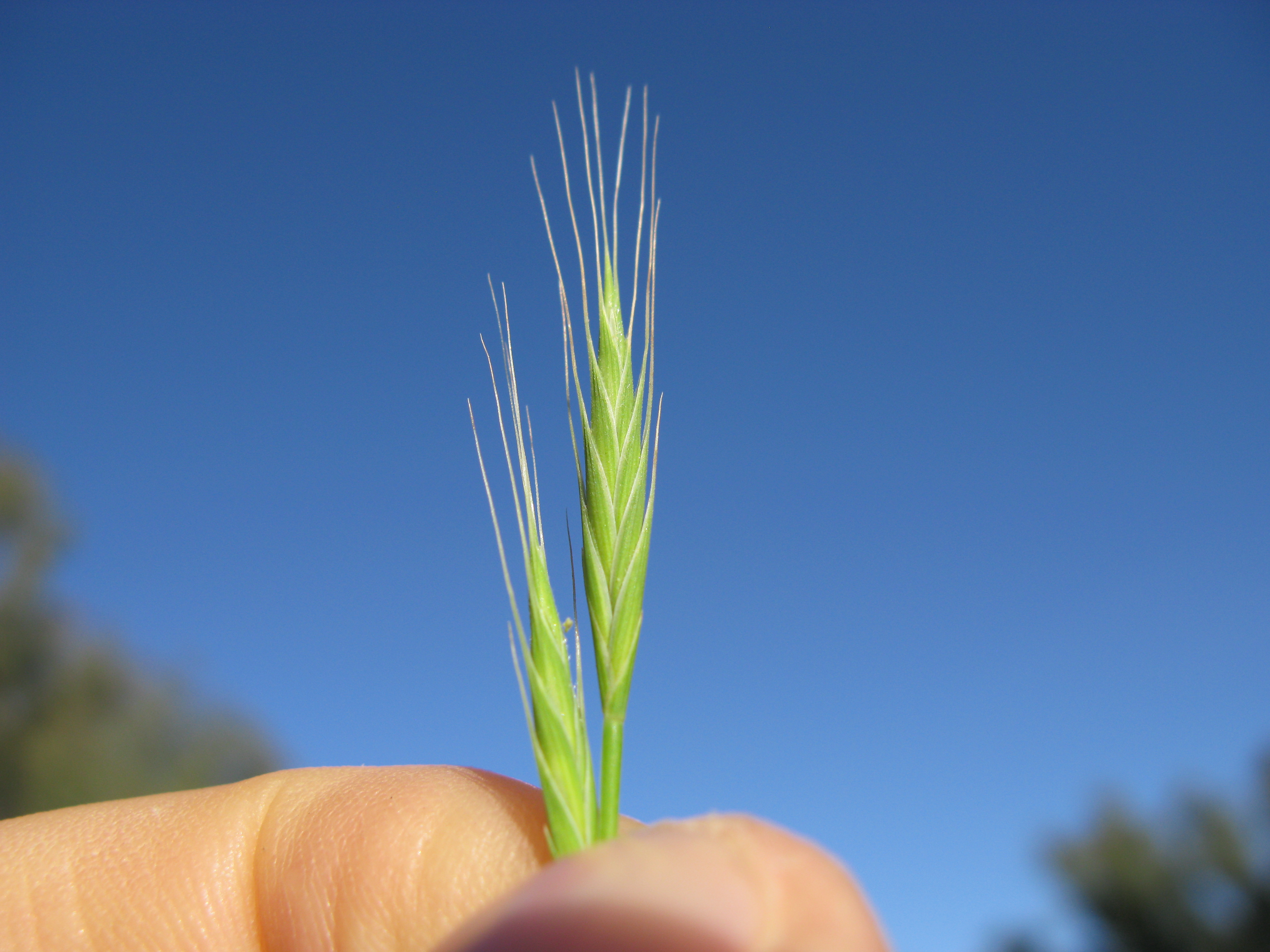 Spikelets are slightly flattened, 7-15-flowered and 20–40 mm long. Glumes are shorter than the lemmas. Fertile lemmas have a straight or curved, terminal awn that is longer than the lemma.